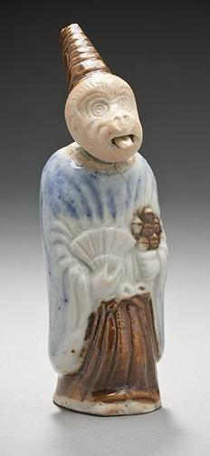 A 19th century netsuke in the form of a costumed, dancing Monkey; Hirado ware; porcelain with reserve area, brown with underglaze blue.